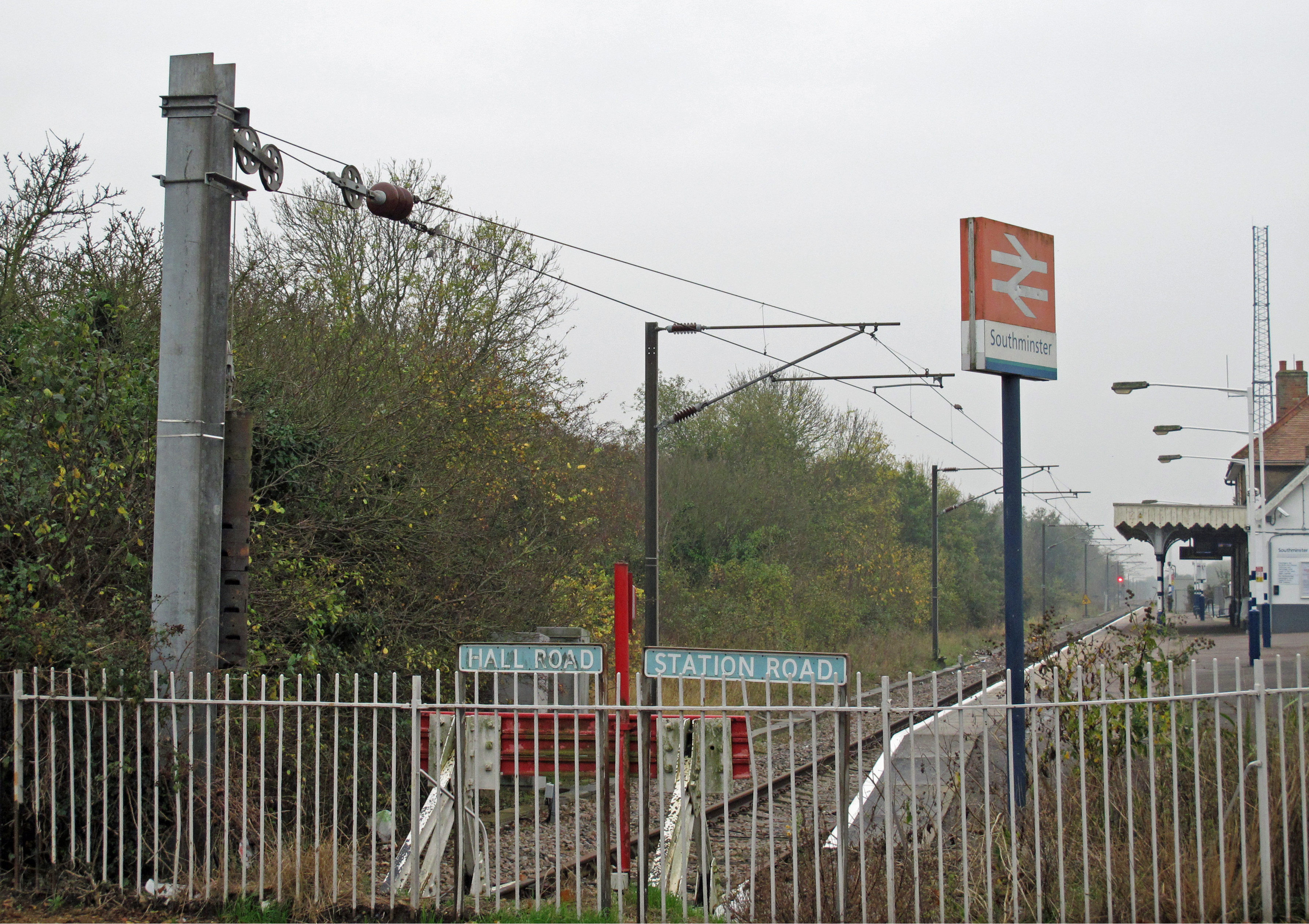 A view of the end of the line at Southminster railway station. The term "catenary" is used for overhead lines which use at least 2 wires, with the contact wire being held in tension almost parallel to the track; this picture gives a clear view of the line tensioning weights on the post closest to the camera. Southminster station was opened by the Great Eastern Railway in 1889. It is now the terminus of the Crouch Valley Line, trains go to Wickford and occasionally through to London Liverpool Street.